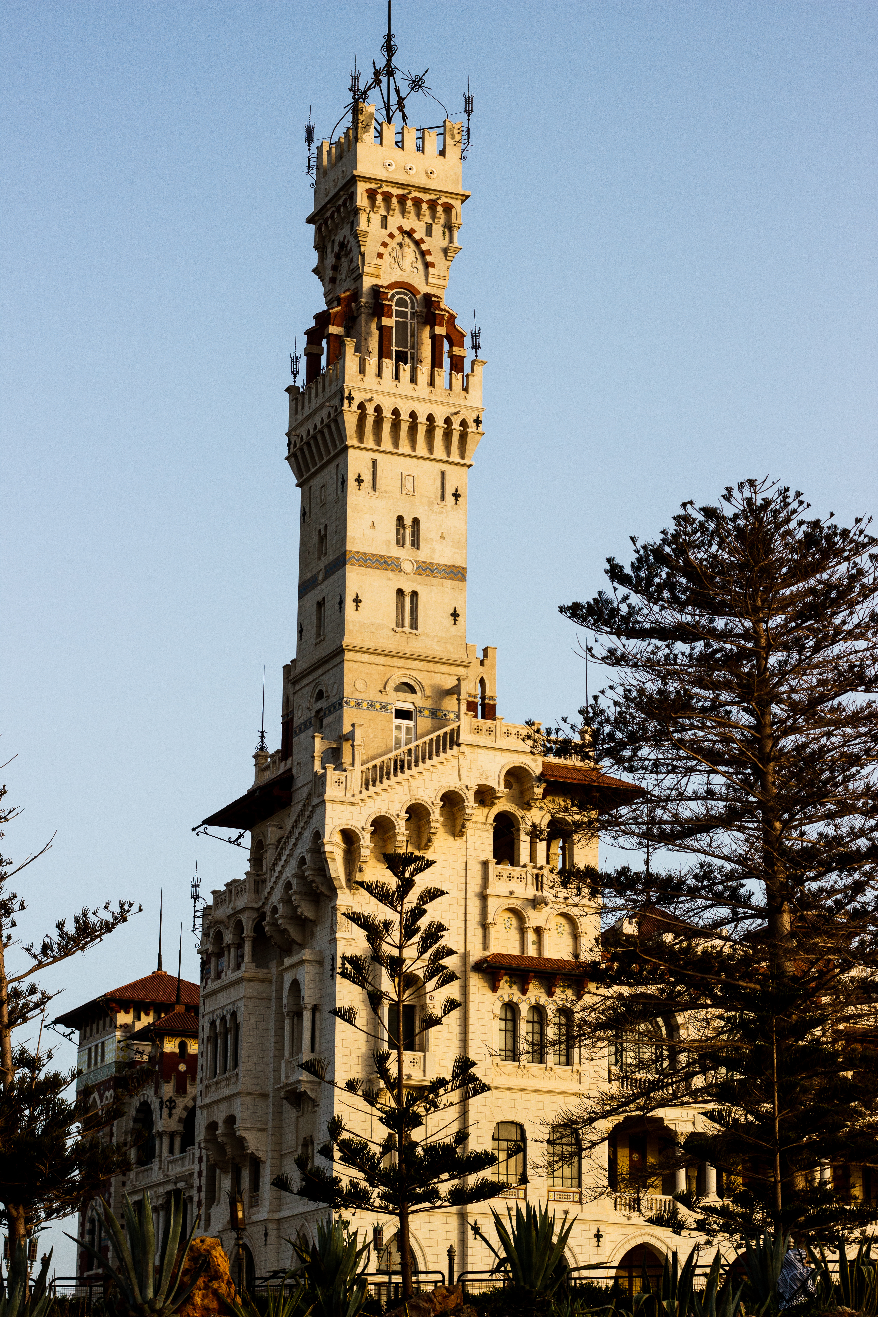 left side view of the palace